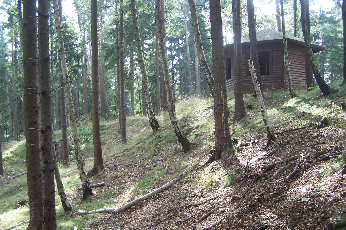 The Schloesschen castle near Ohrdruf in Thuringia.